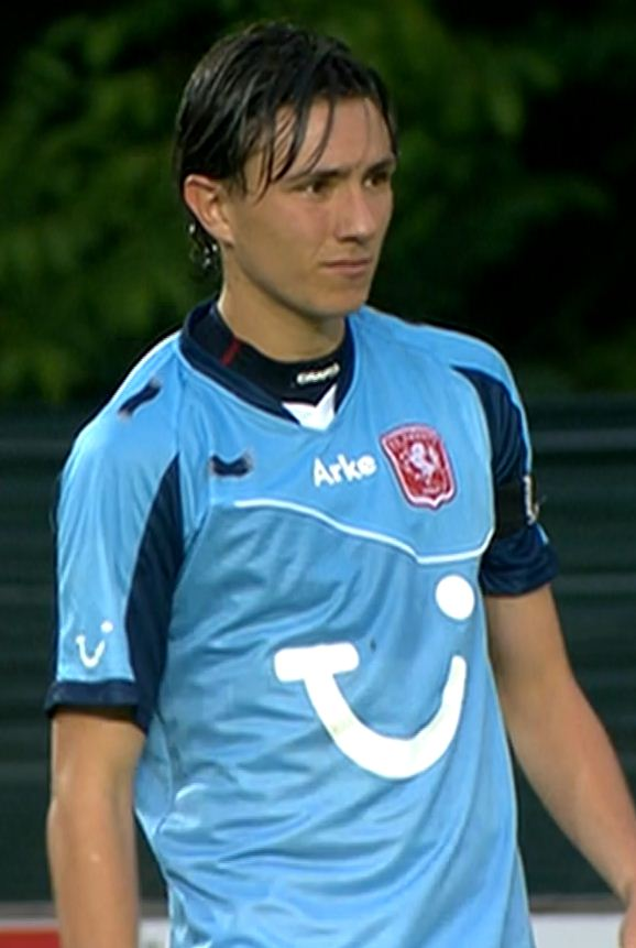 FC Twente-player Steven Berghuis